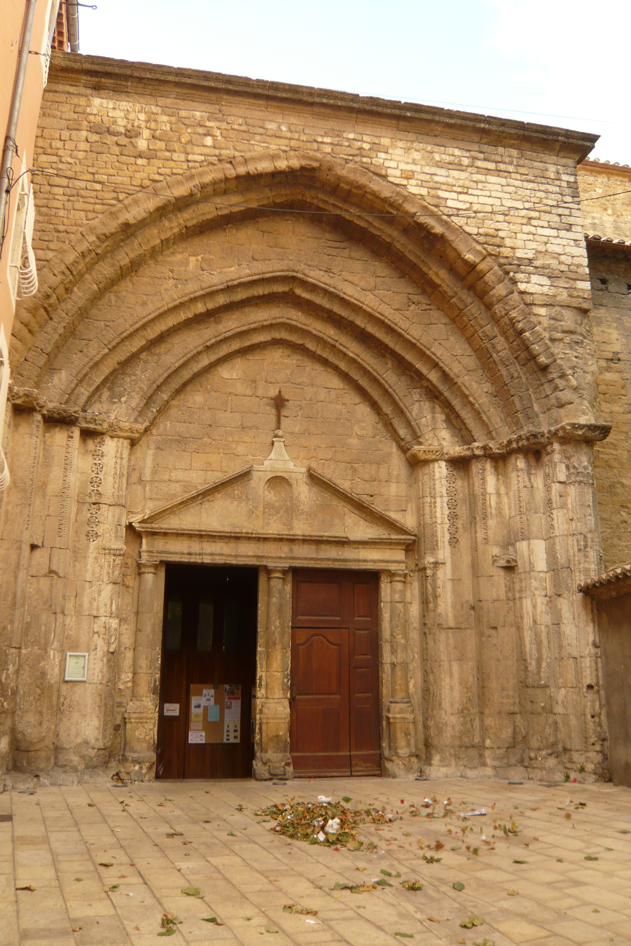 South entrance Cathedral of Notre-Dame-de-Nazareth in Orange .